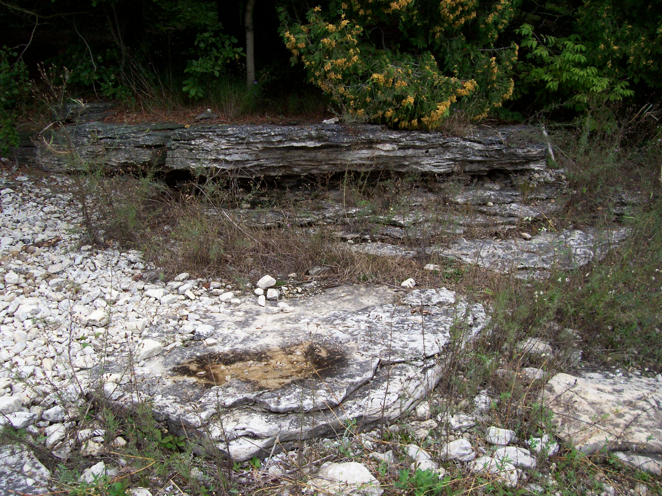 Limestone outcroppings are part of the Niagara Escarpment at Newport State Park in Door County, Wisconsin. The photograph is taken around 10 feet from Lake Michigan. This image was taken August 26, 2006 by User:Royalbroil